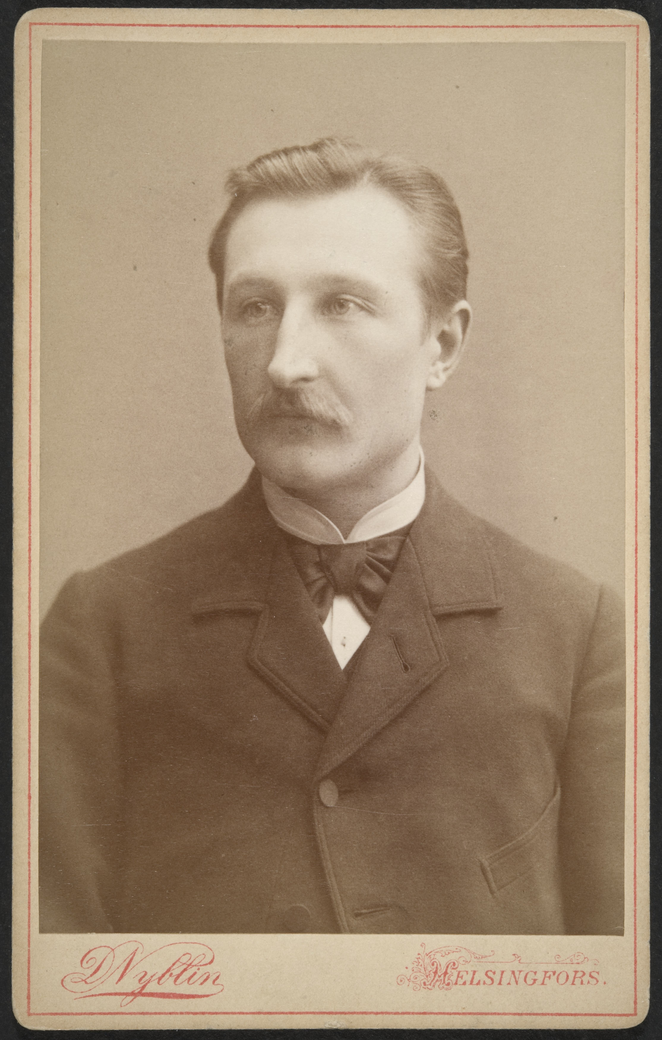 Photograph of the Finnish philologist Ivar Heikel (1861–1952).